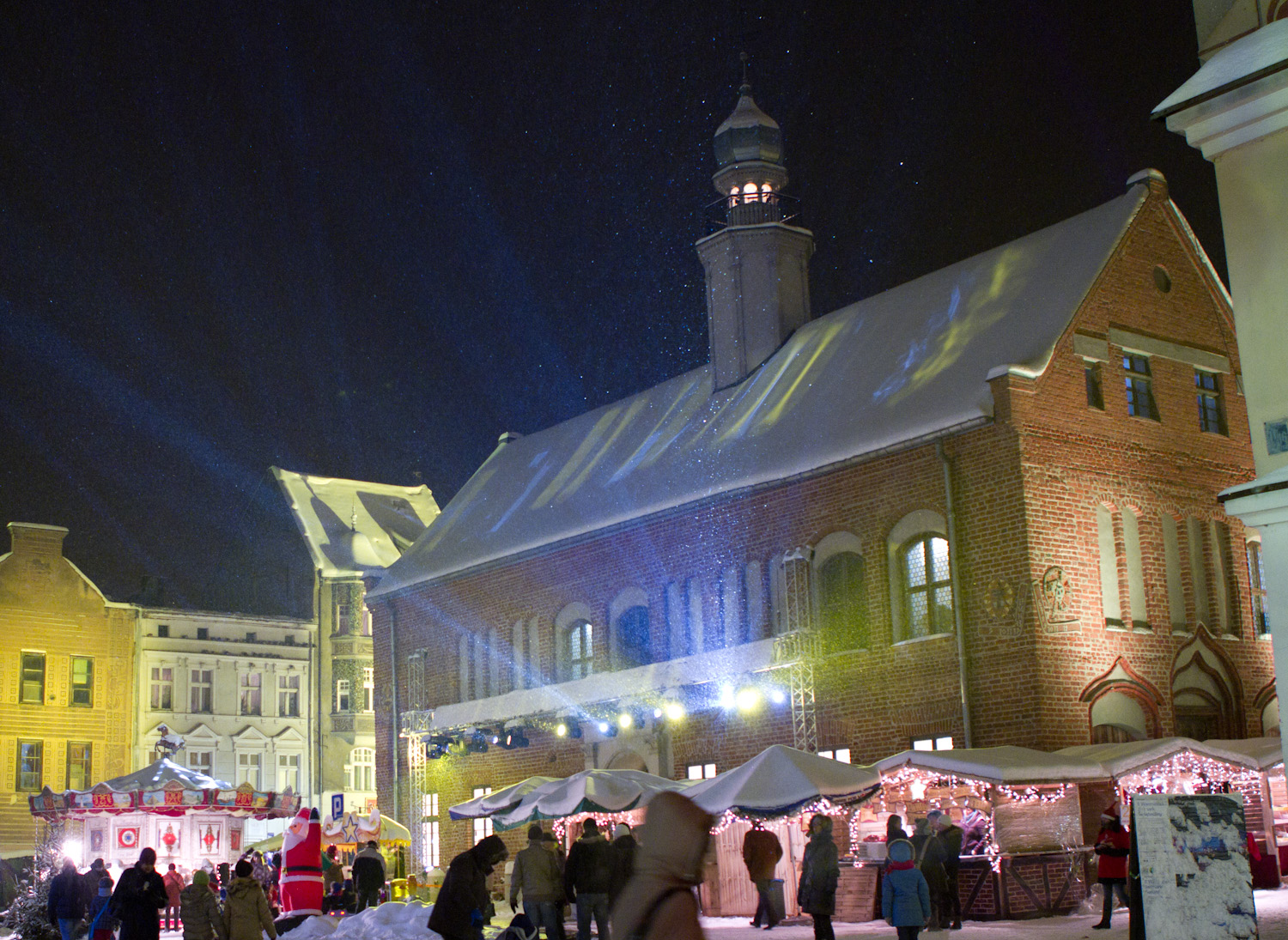 The Old Town Square in Olsztyn